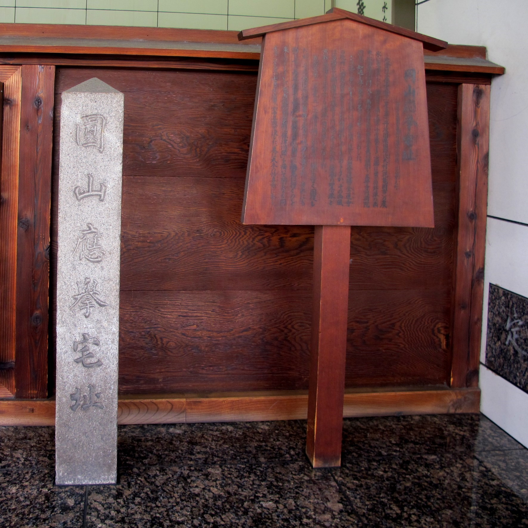 Maruyama Okyo residence memorial stone